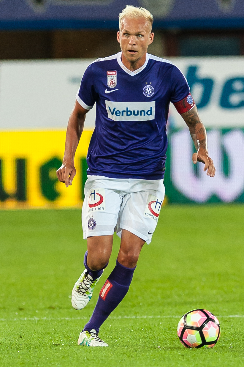 UEFA Europa League - FK Austria Wien vs FK Kukesi, 2016-07-14.